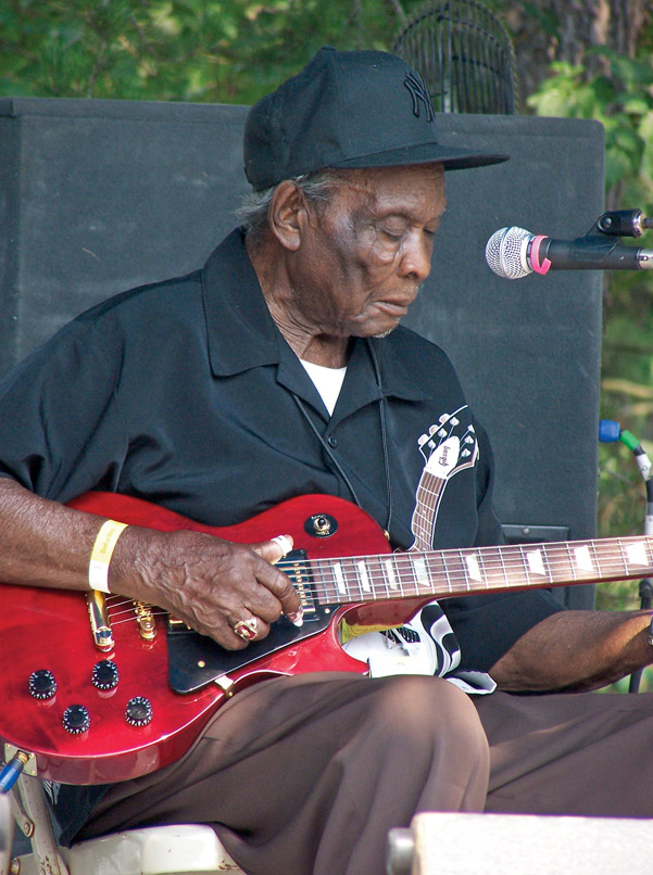 David "Honeyboy" Edwards at the Master Musicians Festival in Somerset, Ky., July 19, 2008.